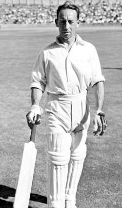 Picture of former Australian cricketer Lindsay Hassett leaving the field after batting, taken in 1949. Image is pre-1955 from the National Archive of Australia, and is therefore in the public domain.